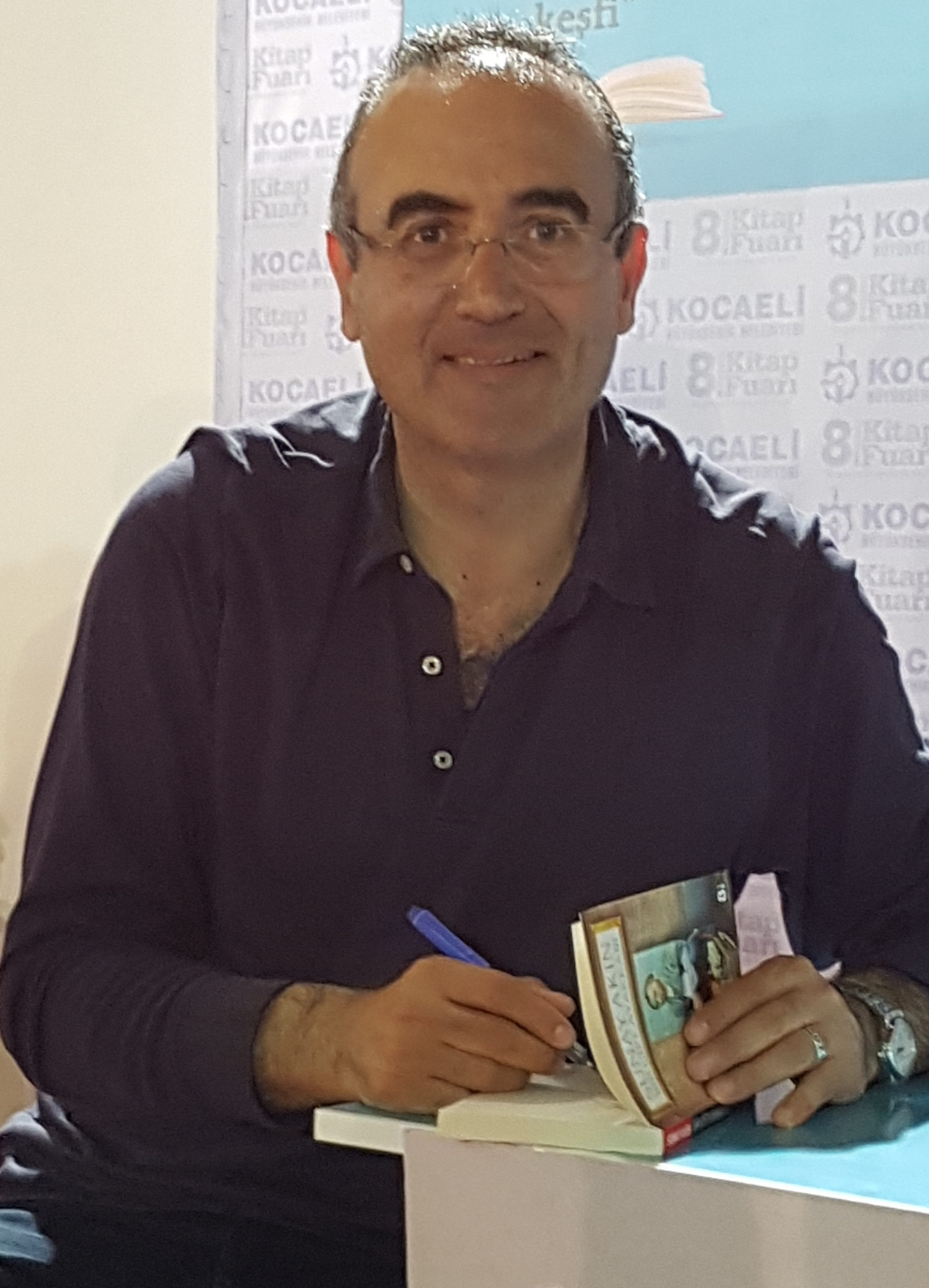 Sunay Akın at Kocaeli Book Exhibition, May 2016